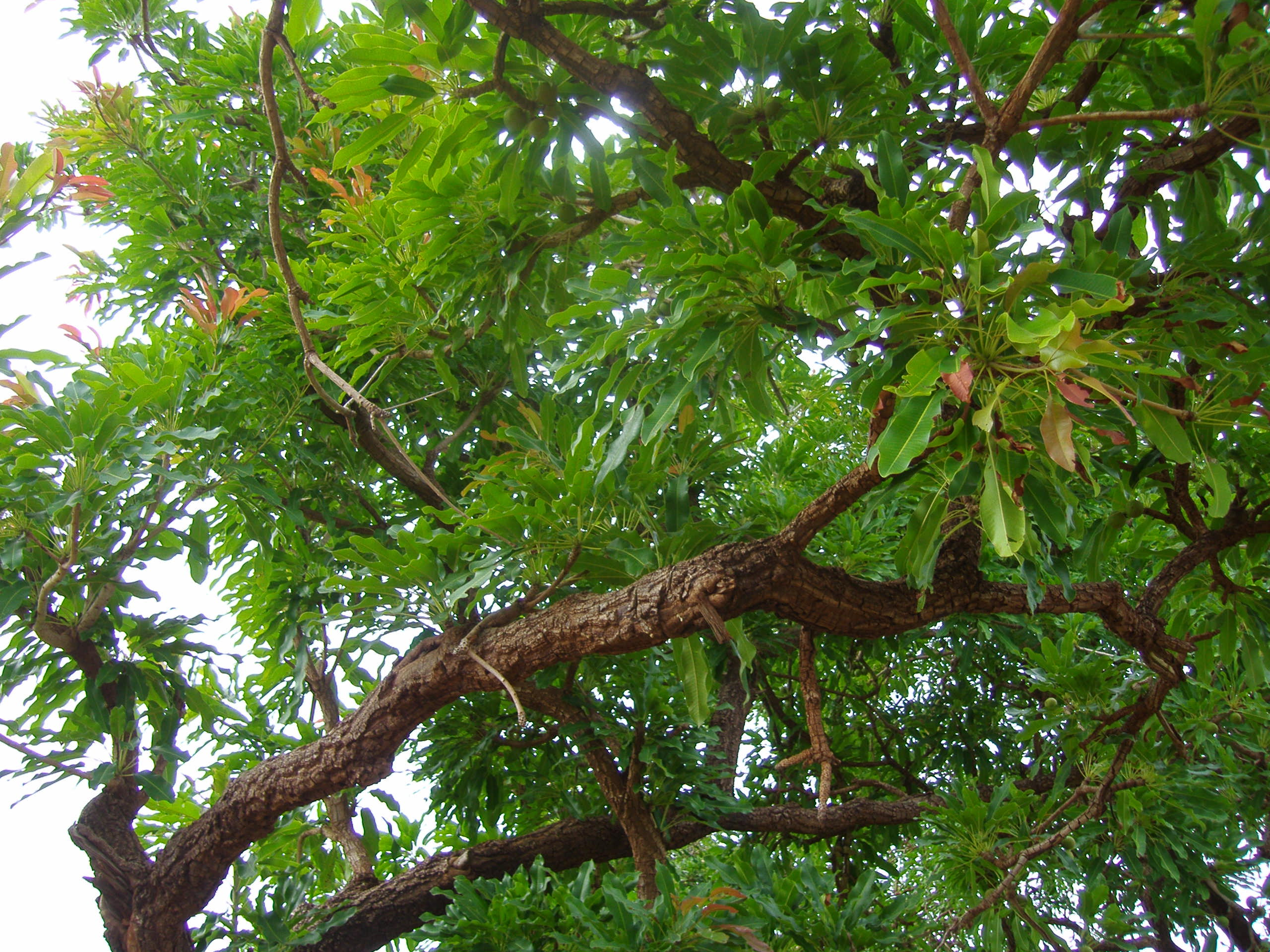 Leaves of sheanut tree used for food in northern Ghana